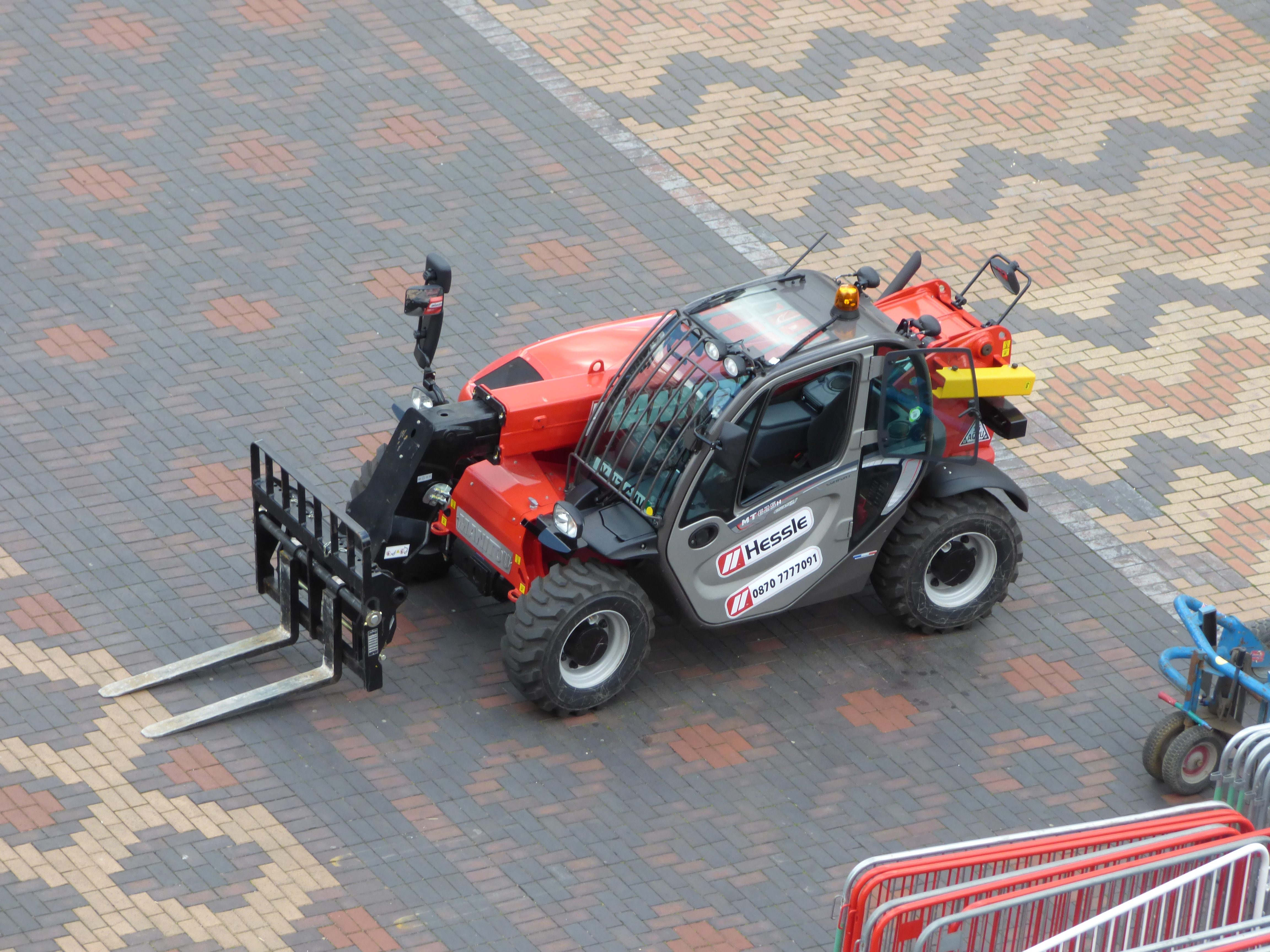 Centenary Square behind barriers. The section in front of the Library of Birmingham and The REP is now surrounded by grey fences. Probably for the first stage of the refurbishment of the square, so out with the old 1990s style paving design. Some of it was only added in 2010 - 2013 when the Library was built. The amphitheatre and new family statue is all within this area. The area in the middle has only been open to the public since September 2013 to April 2017 (since the library opened). specialised forklift truck Hessle